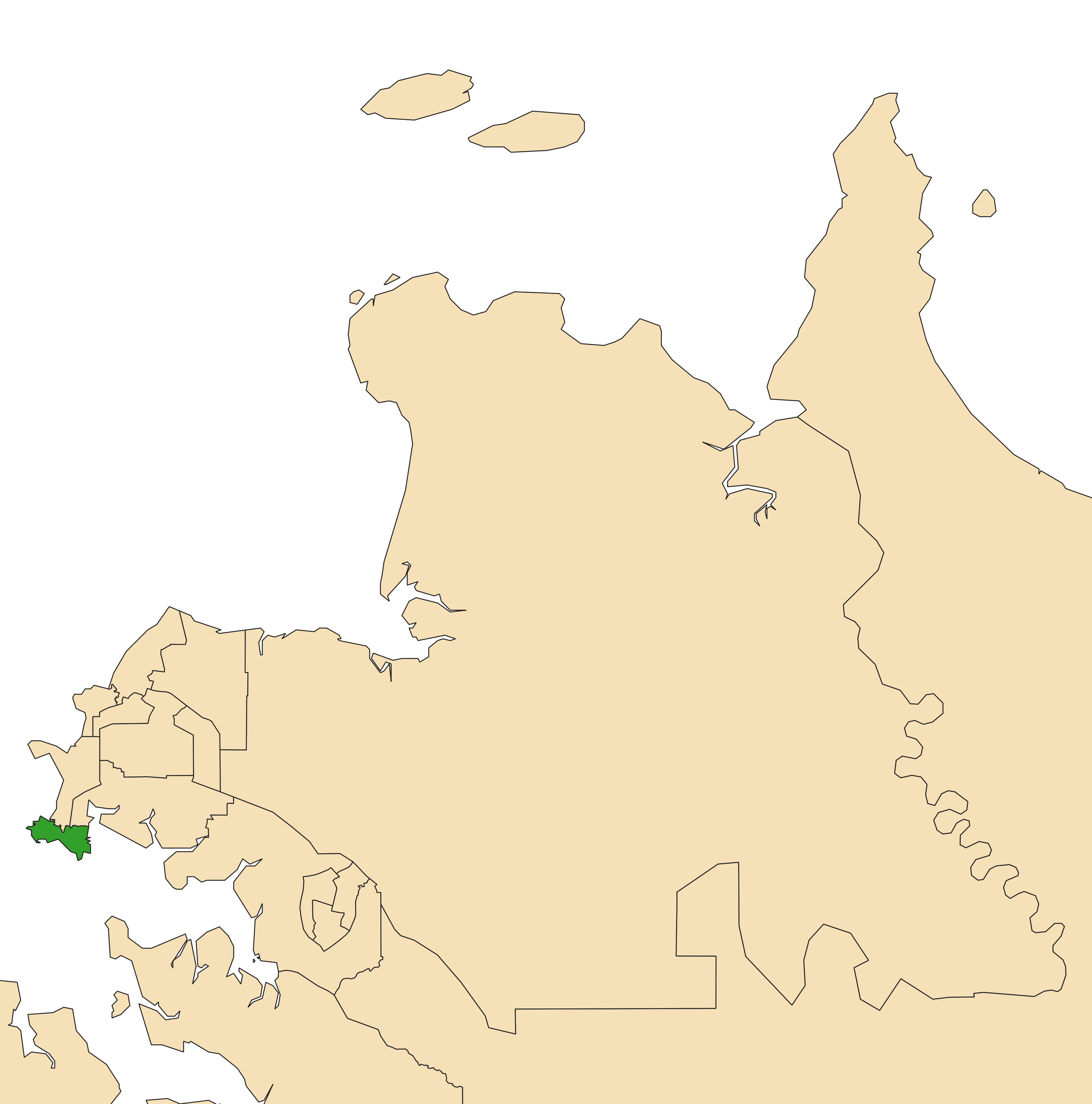 Location of the electoral division of Port Darwin (dark green) in the Darwin/Palmerston area of the Northern Territory at the 2020 Northern Territory election